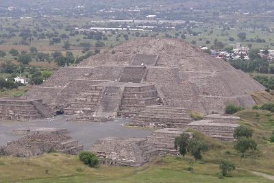 Pyramid of the Moon, Teotihuacán, Mexico